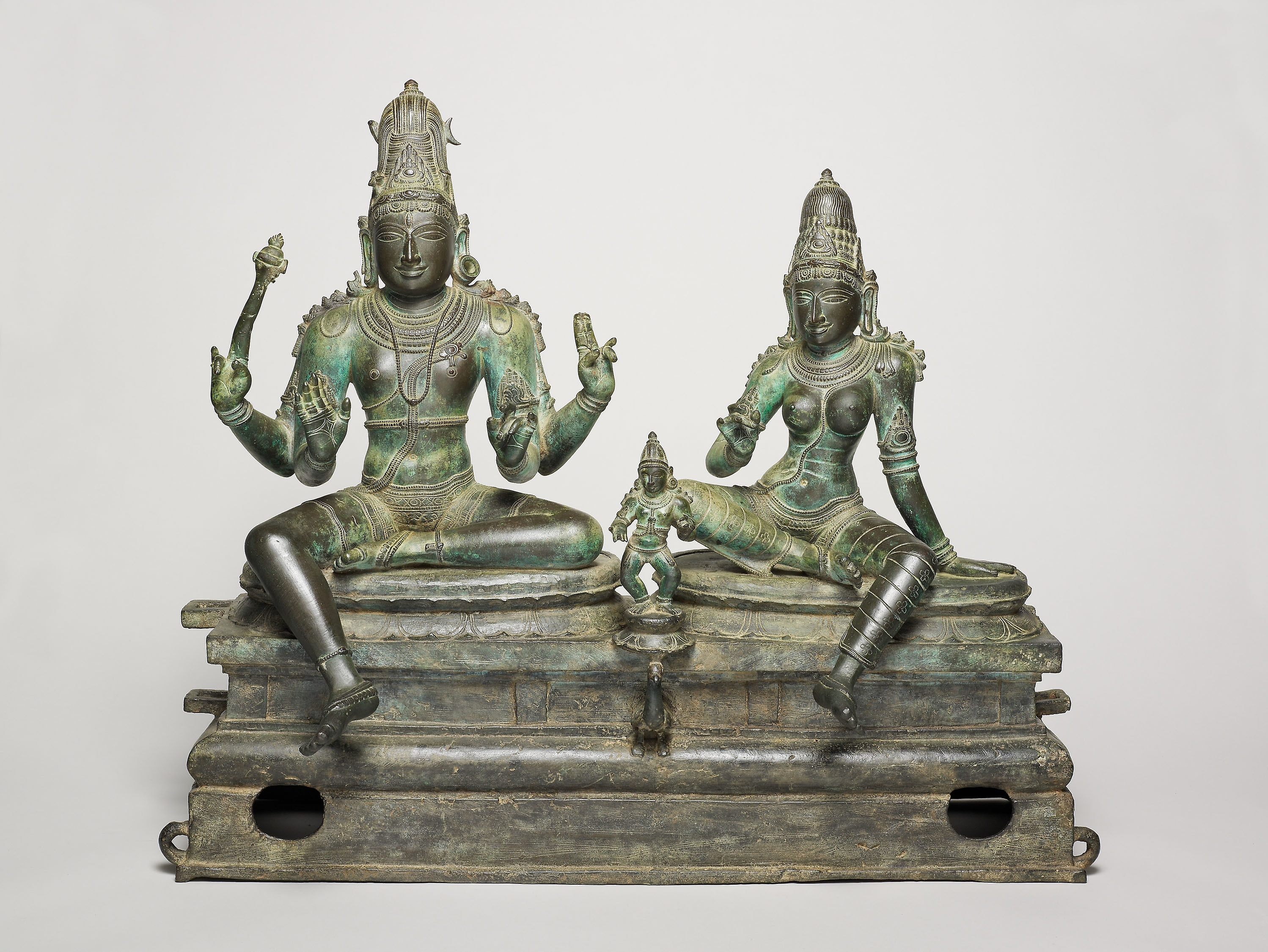 God Shiva and Goddess Uma Seated with Their Son, Skanda (Somaskanda). Tamil Nadu, India. Bronze. 62.6 x 75 x 31.4 cm (25 x 28 1/2 x 12 3/8 in.). Credit: Robert Allerton Purchase Fund. Reference Number: 1966.334.